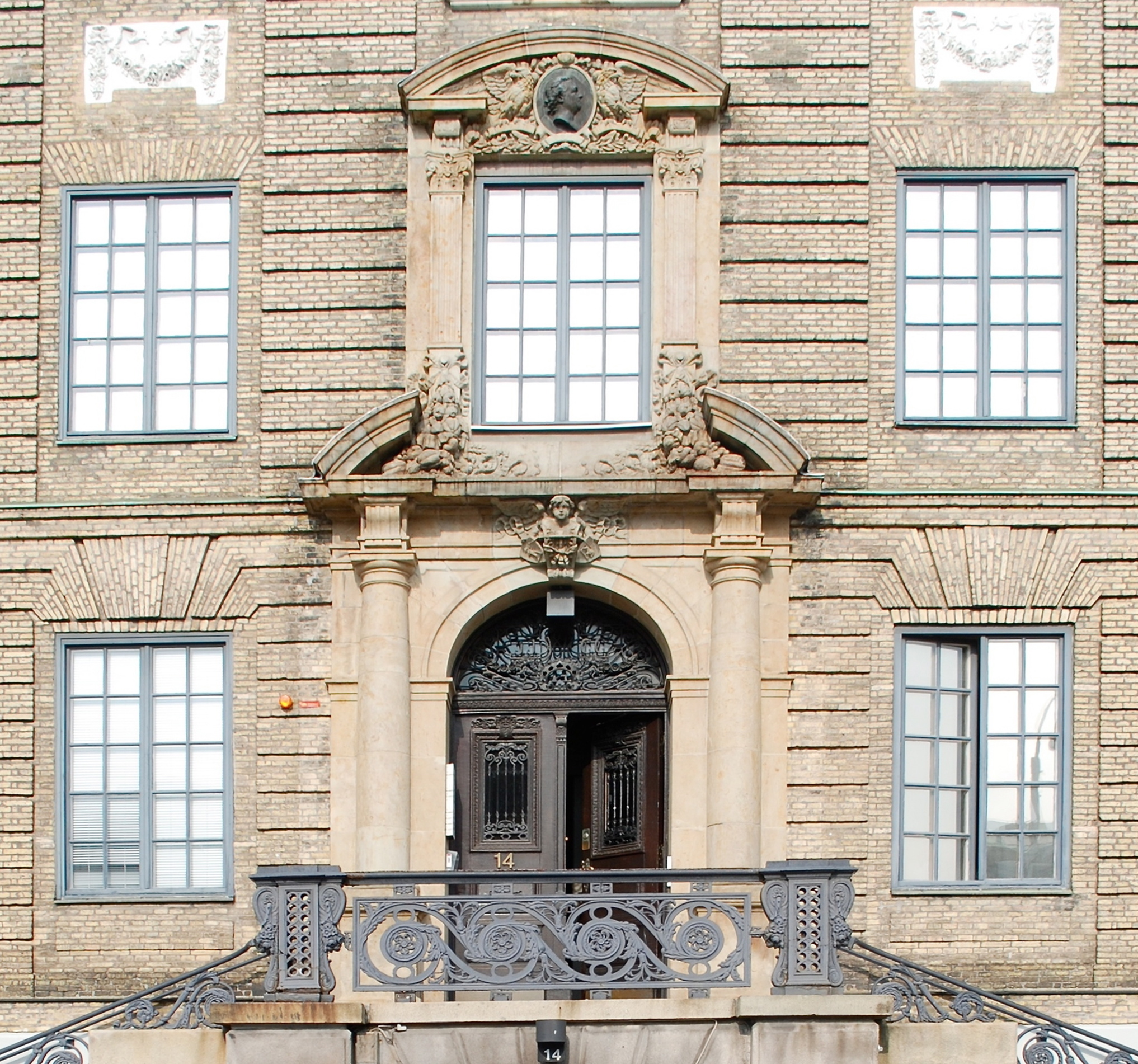 Entrance to Sahlgrenska huset.